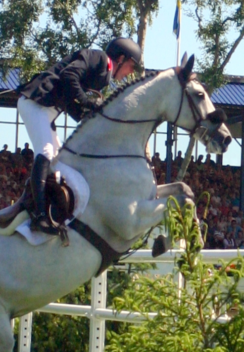 Showjumper Guy WIlliams riding Richi Rich, Grey Mare (2001), at Hickstead Jumping Derby, 26 June 2011